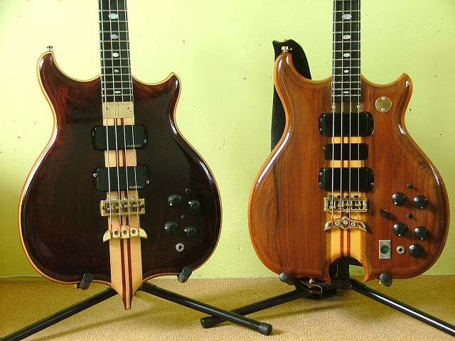 Example of a Standard Point body shape an an Omega body shape.